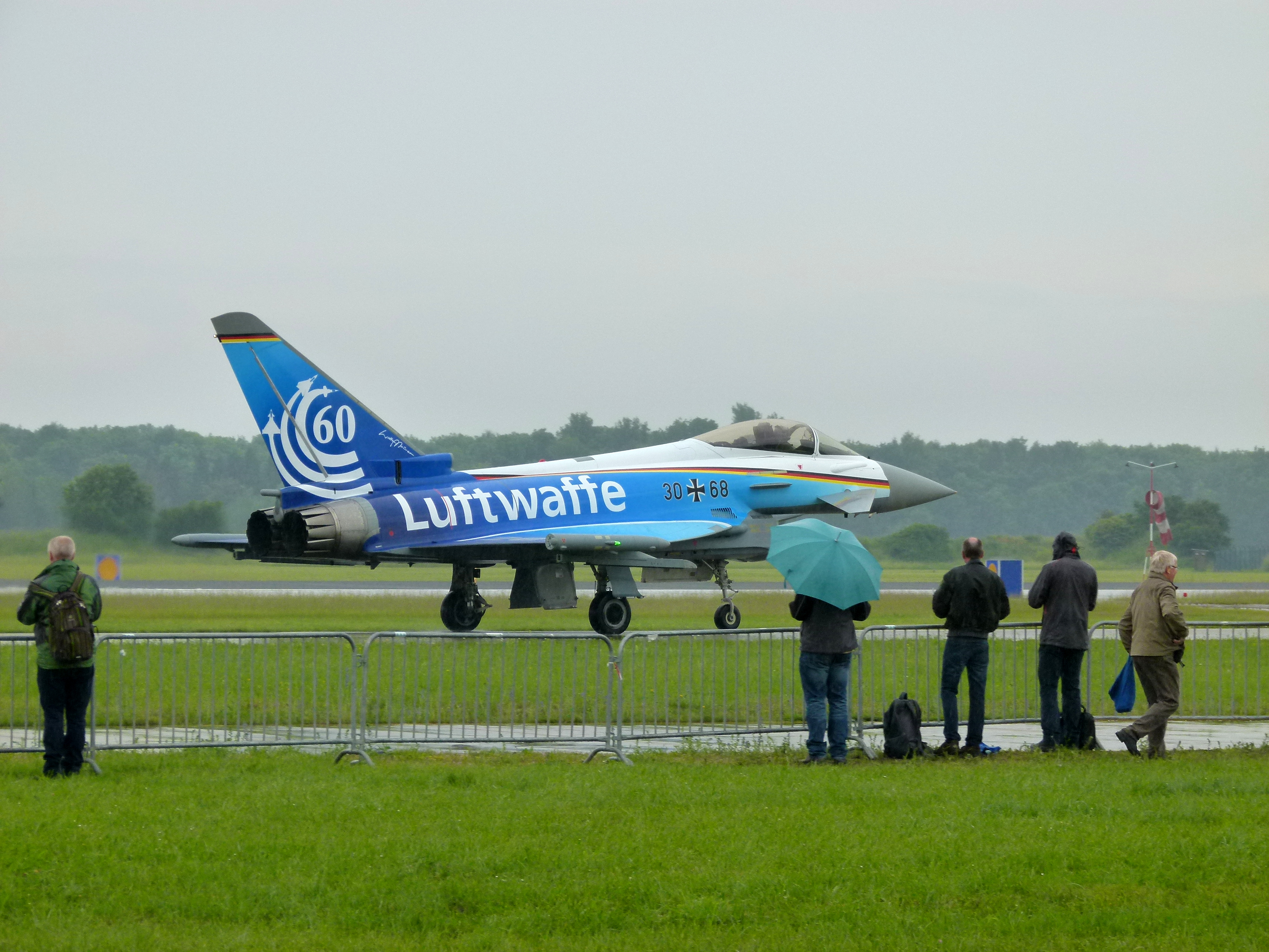 Eurofighter Typhoon at Neuburg Air Base while Day of the Bundeswehr 2016